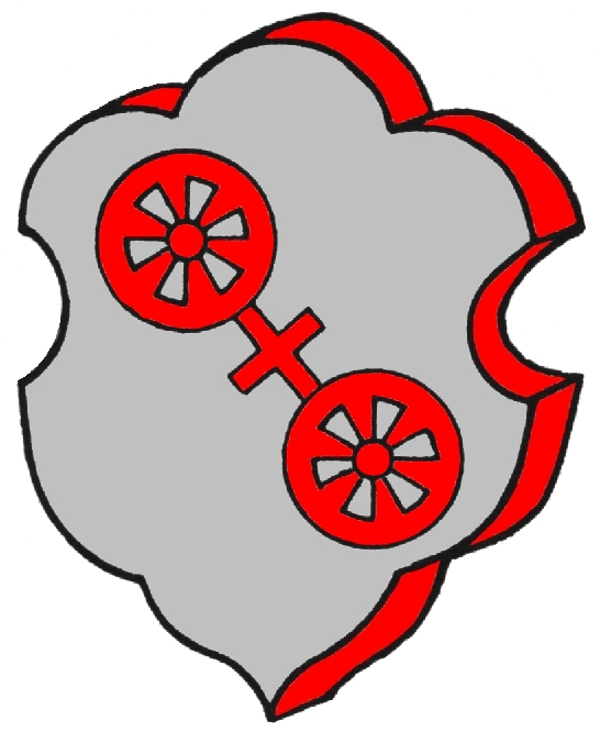 Coat of arms of Fritzlar, Germany